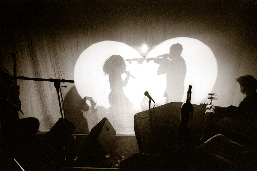 Joy Denalane & Max Herre, Stuttgart, Freundeskreis tour 1999